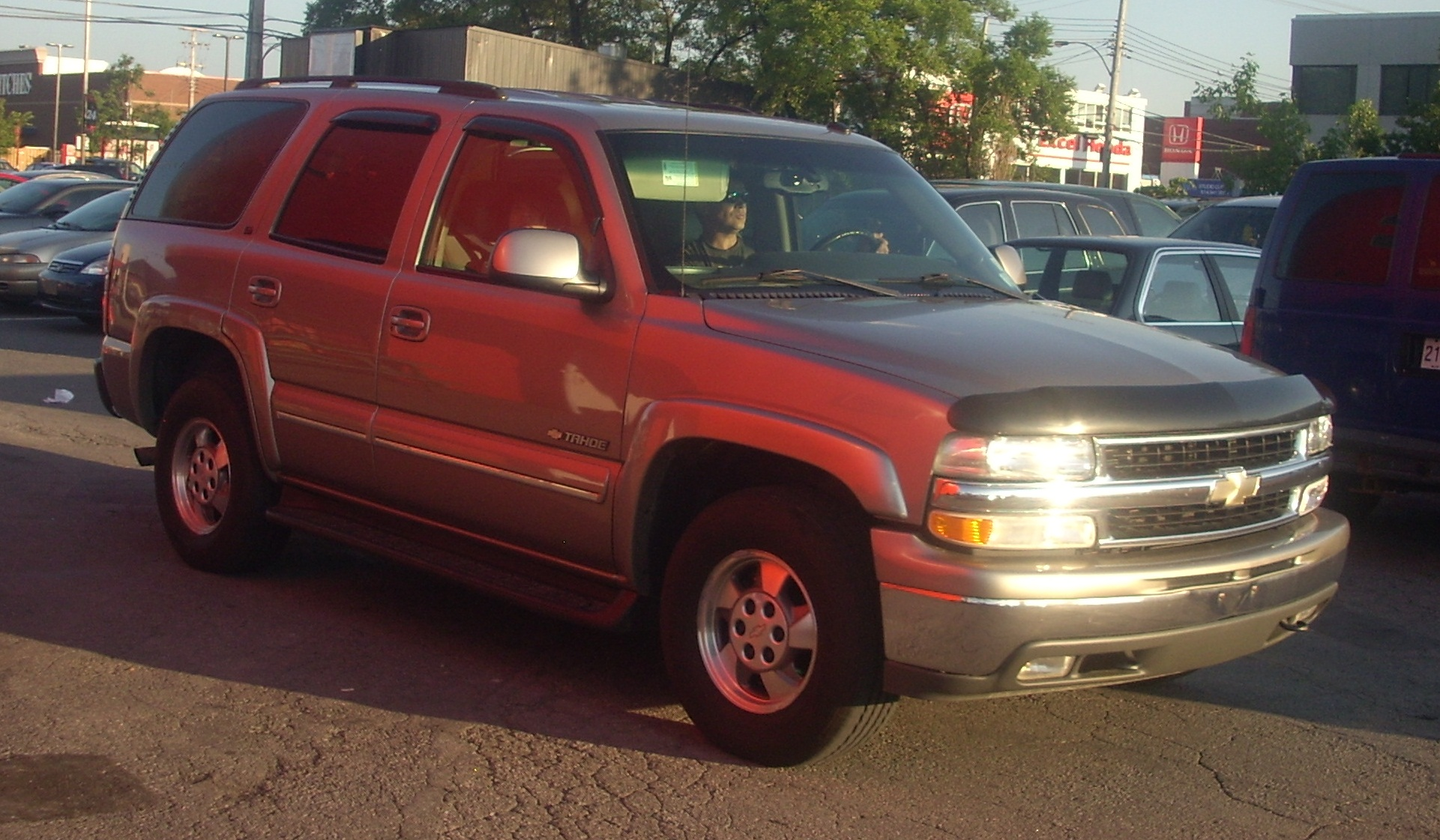 Chevrolet Tahoe photographed in Montreal, Quebec, Canada at Gibeau Orange Julep.